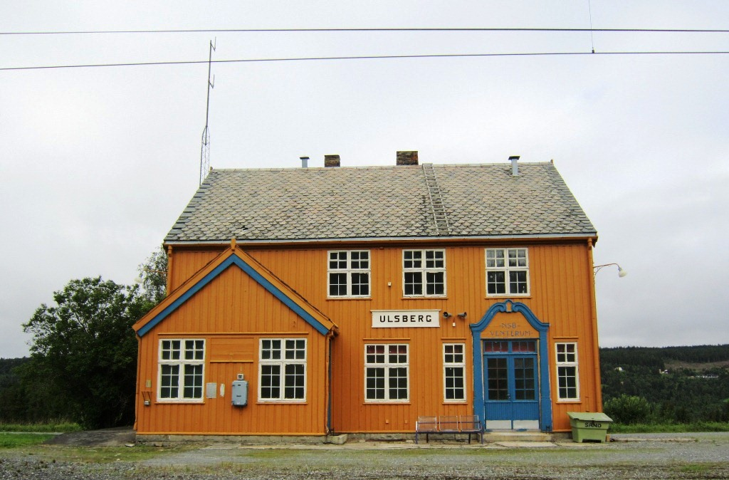 Ulsberg station on the Dovre line (Sør-Trøndelag, Norway)